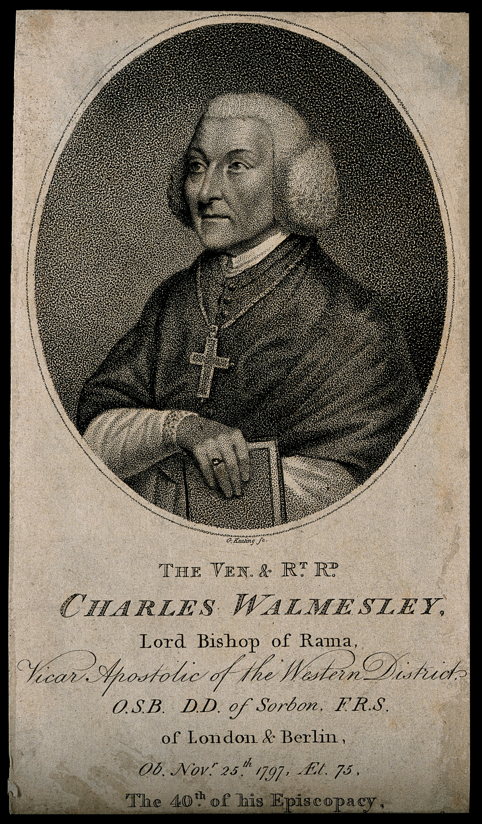 Charles Walmesley. Stipple engraving by G. Keating. Iconographic Collections Keywords: portrait prints; Charles Walmesley; stipple prints